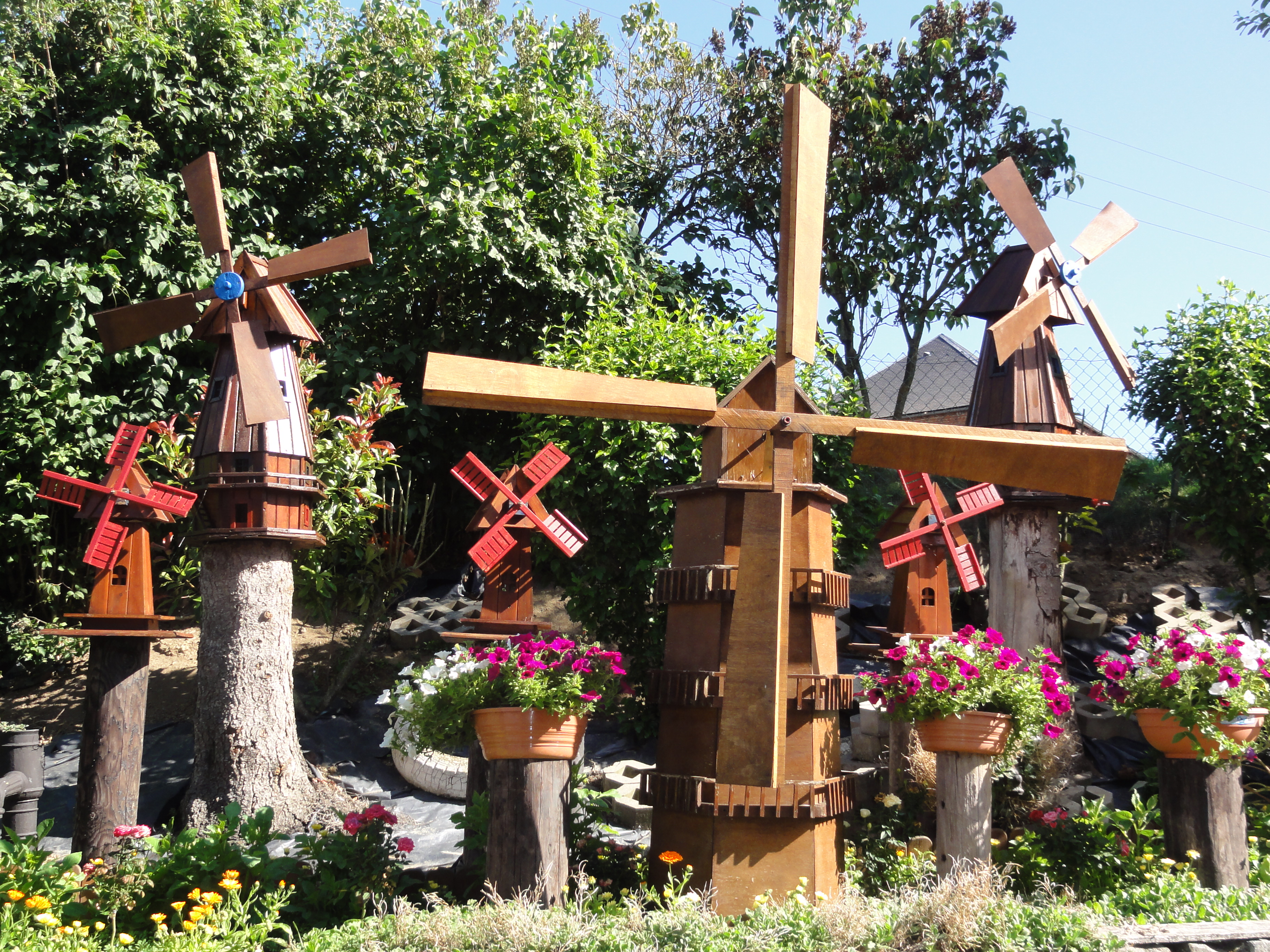 Mecquignies (Nord, Fr) model windmills